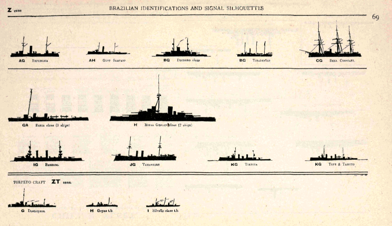 Warship silhouettes of the Brazilian Navy, 1914